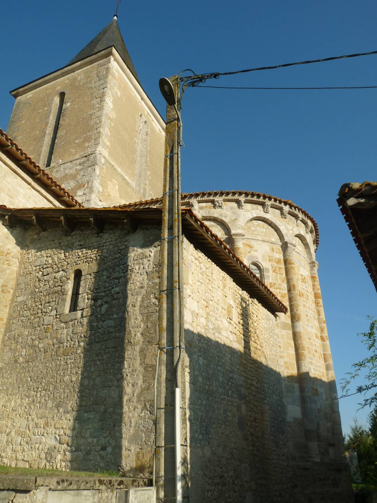 church of Nonac, Charente, SW France